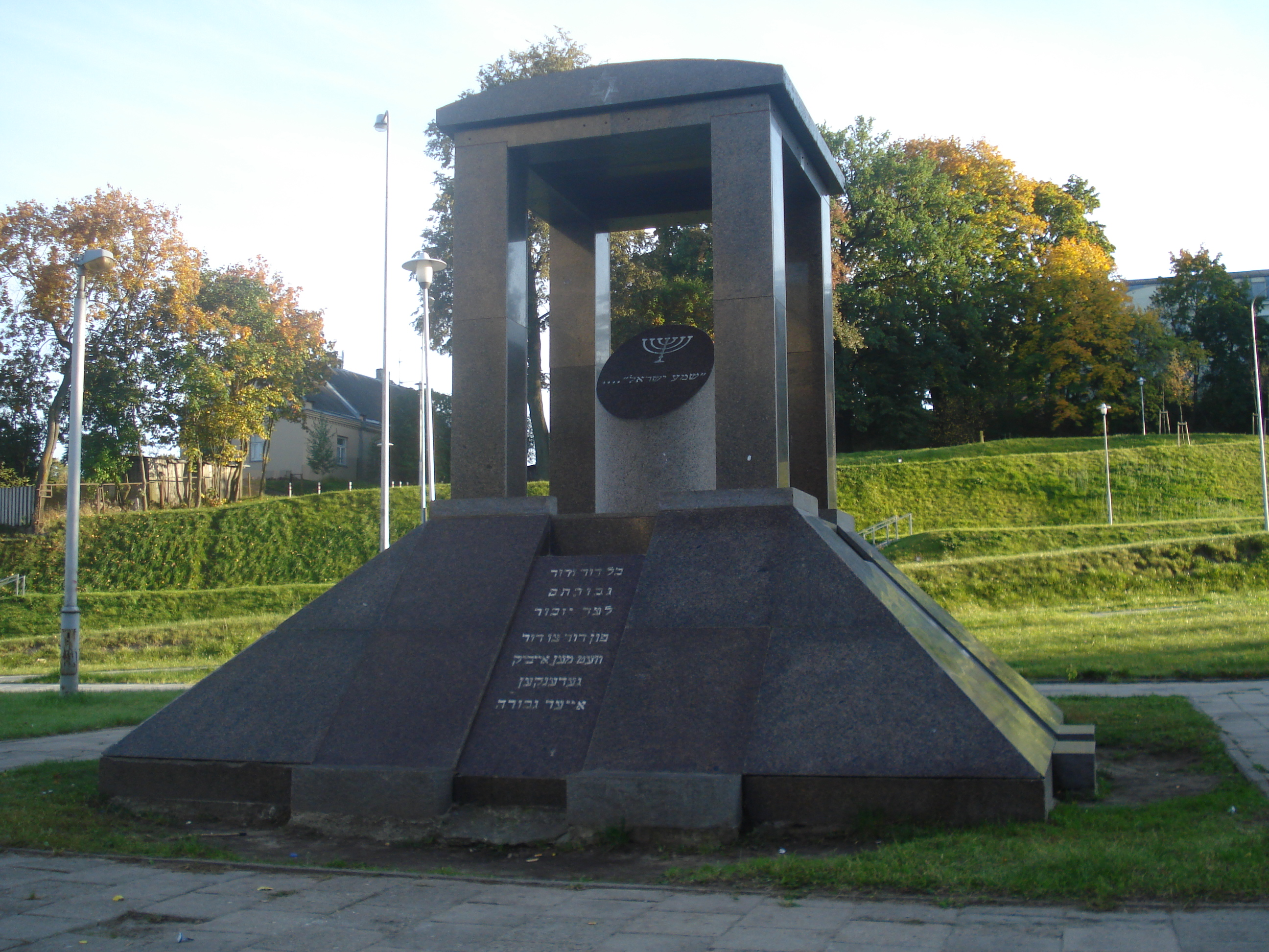 Memorial to the Jews victims of Nazi Germany in Vilnius (Subačiaus g.): From generation to generation your heroism will be always remembered.